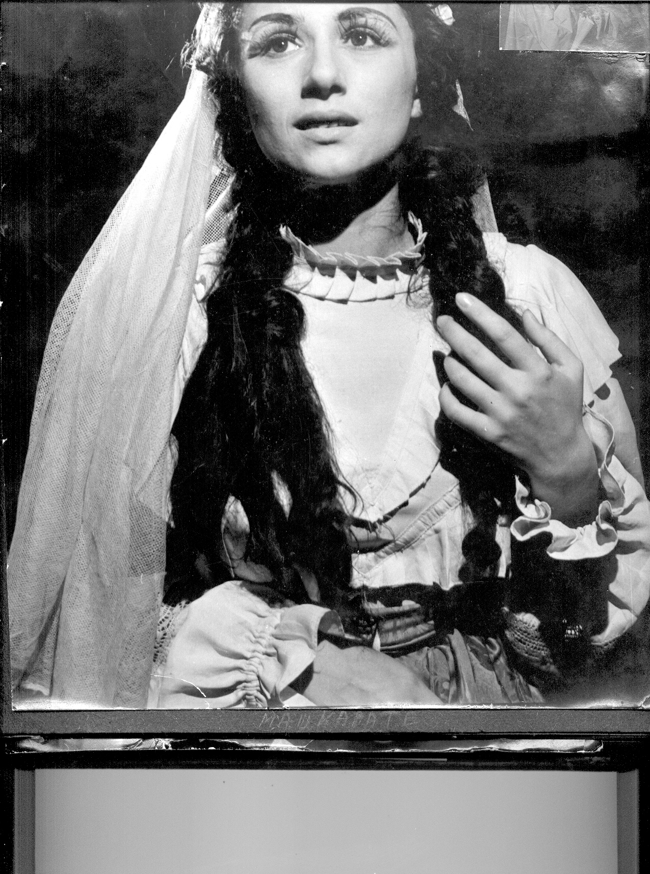 Anđelija Vesnić Vasiljević, Serbian actress Srpski (latinica): Anđelija Vesnić Vasiljević, srpska glumica Српски (ћирилица): Анђелија Веснић Васиљевић, српска глумица